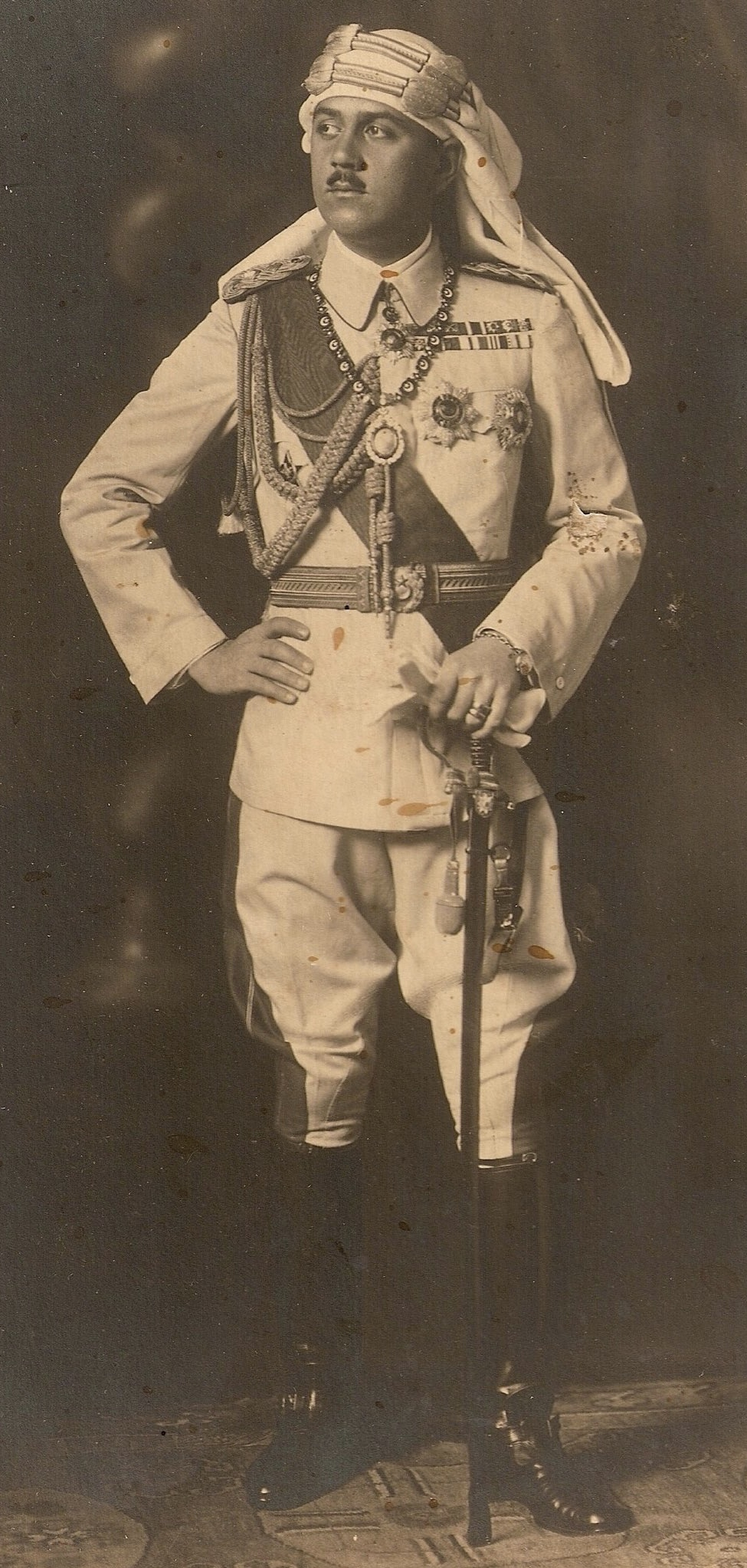 Osman Fuat Efendi on Trablus